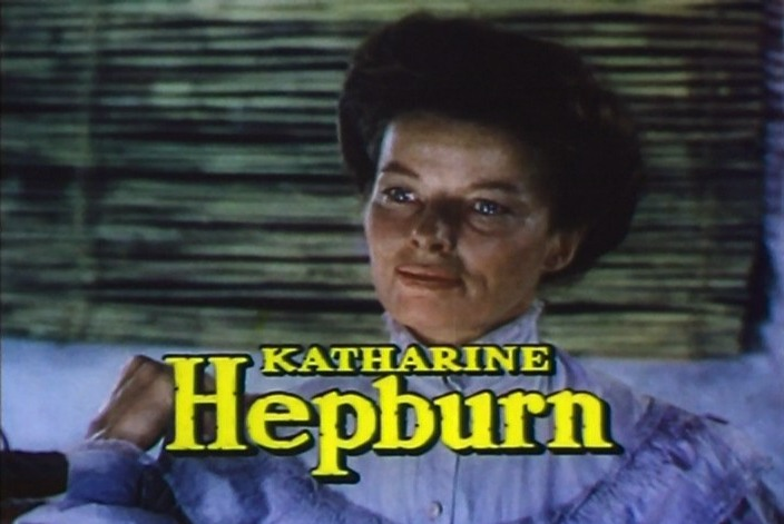 Screenshot of Katharine Hepburn from the trailer for the film The African Queen.